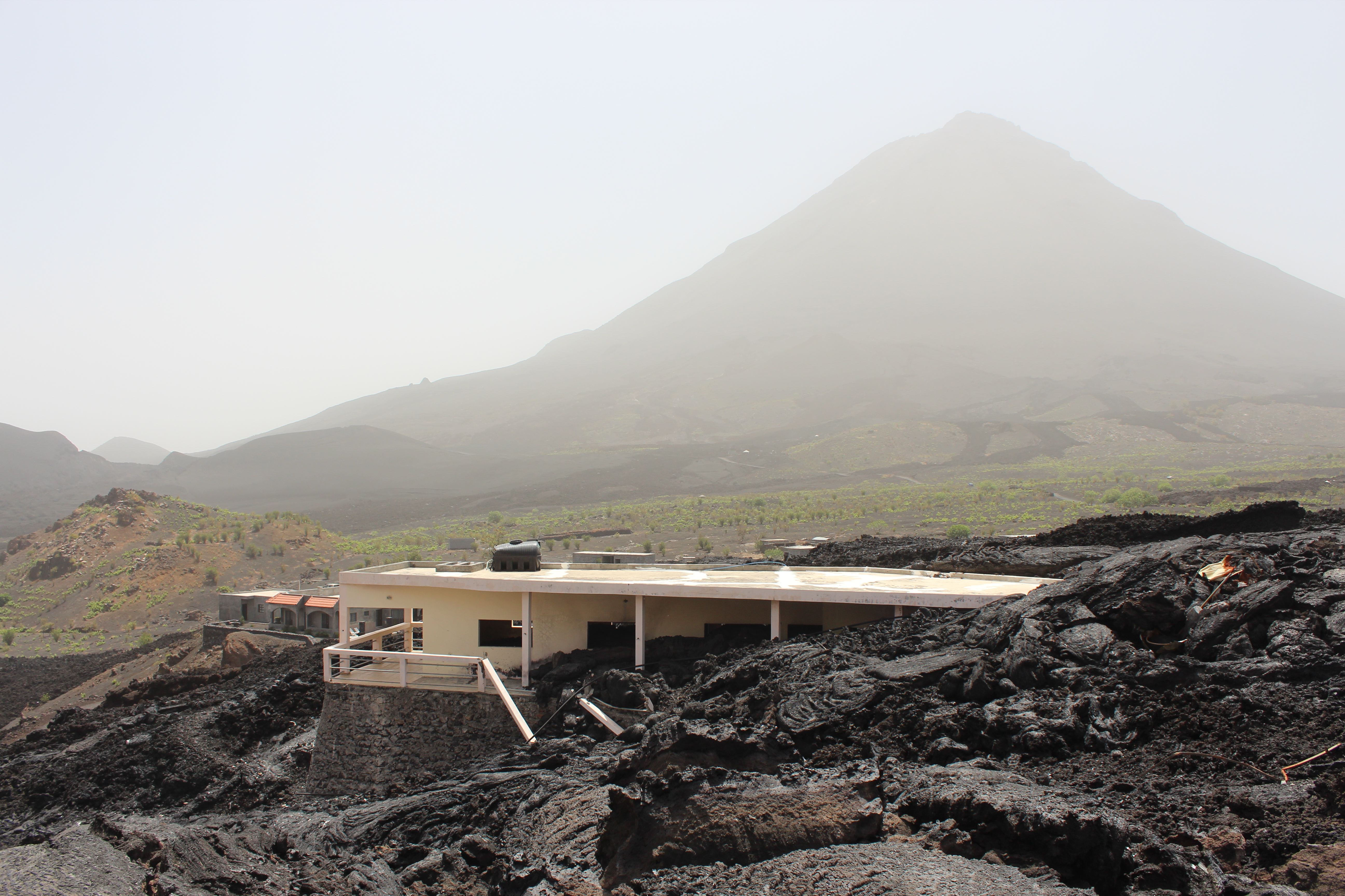 Destructions of the Pico de Fogo eruption in 2014-15, village of Portela, Cha de Caldeira, on Fogo island, Cabo Verde.